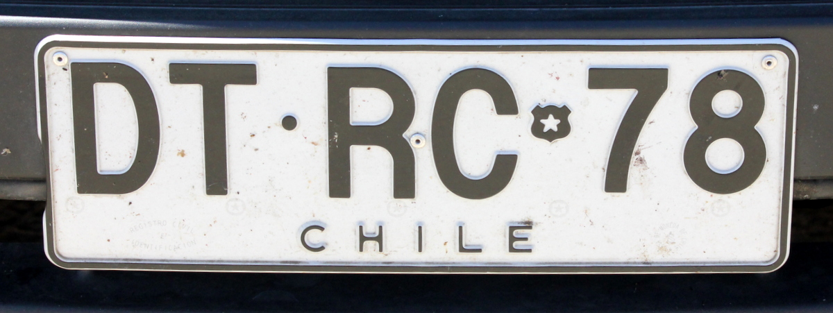 Chilean registration plate in format 3: particular